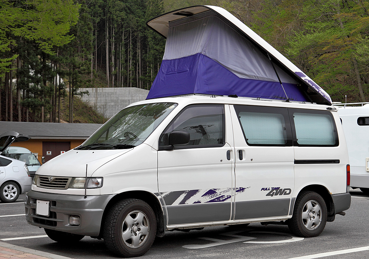 Mazda Bongo Friendee with Auto Free Top.